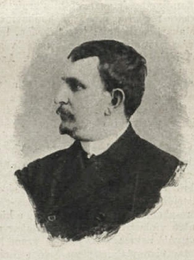 Gusztáv Magyar Mannheimer